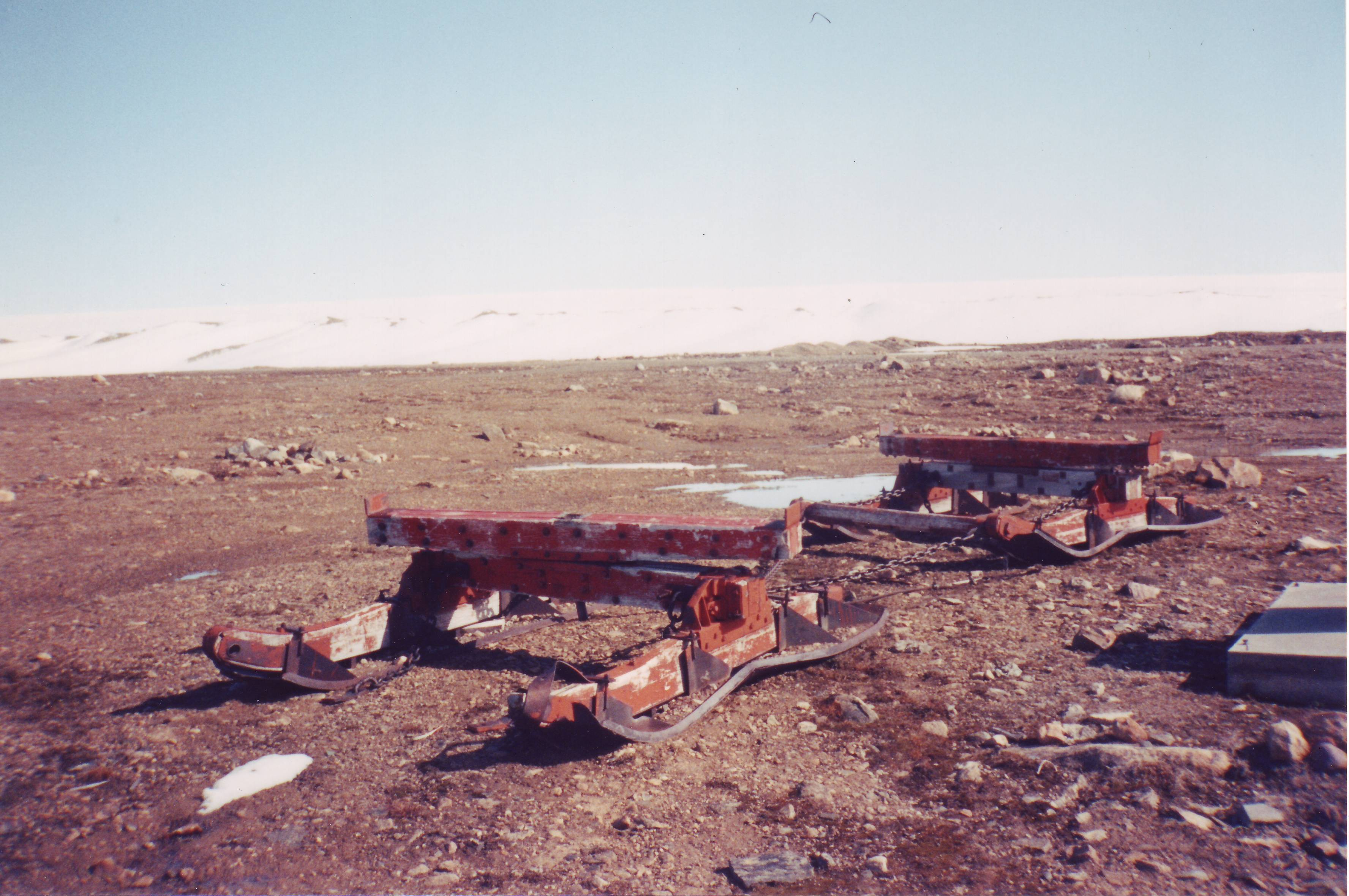 Abandoned sled at Camp Tuto near Thule Air Base. It was used to transport goods to Camp Century.